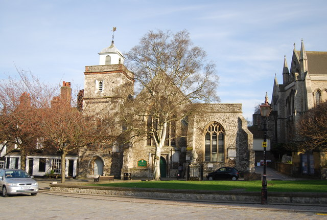 St Nicholas church, Rochester, Medway, Kent